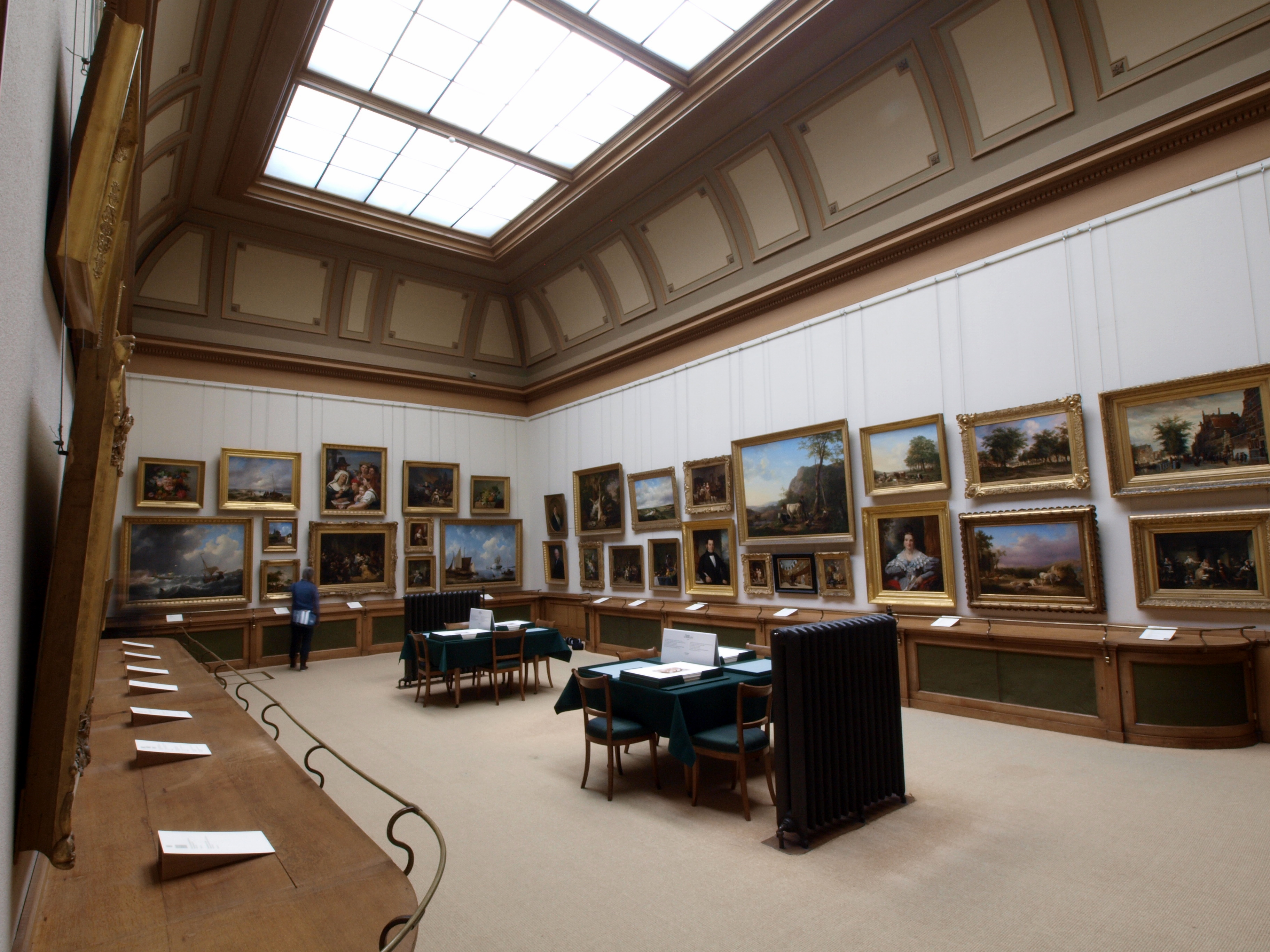 Paintings photographed at Teylers museum, Haarlem, The Netherlands. Some paintings at Teylers museum